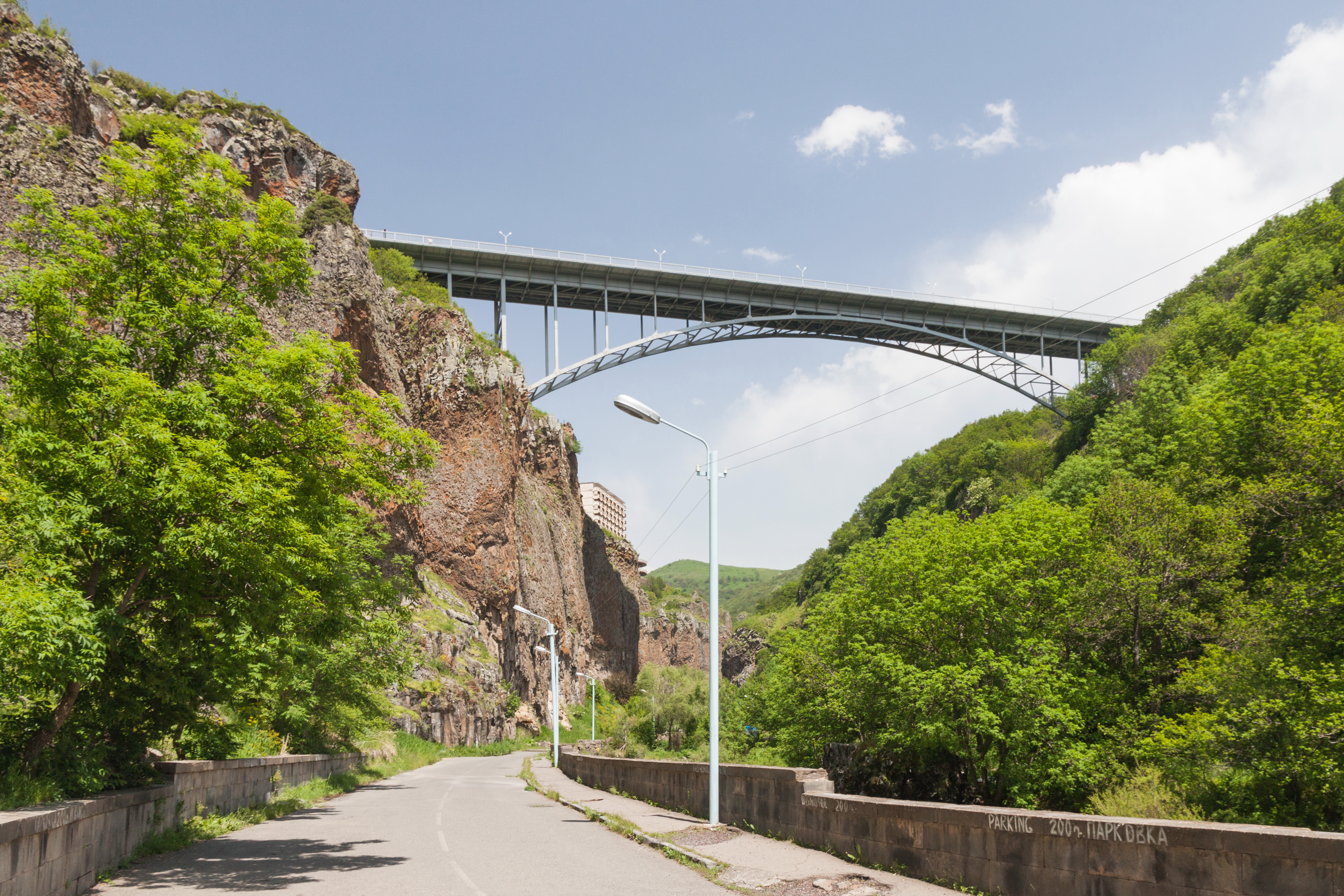 Bridge over the Arpa river canyon. Jermuk, Vayots Dzor Province, Armenia.